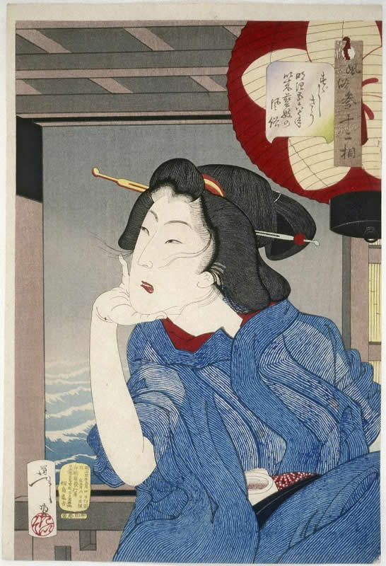 Suzushisô Meiji goroku nen irai geigi no fûzoku Colour print from woodblocks with gloss black (tsuyazumi) and imitation woodgrain (itame mokuhan). Ôban format. Block-cutter:Wada hori Yû . Publisher: Tsunashima Kamekichi. First edition, printed 04/05/1888.